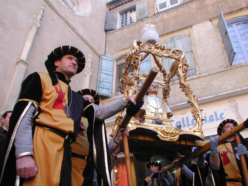 Procession St Marcel a Barjol 800 600.jpg